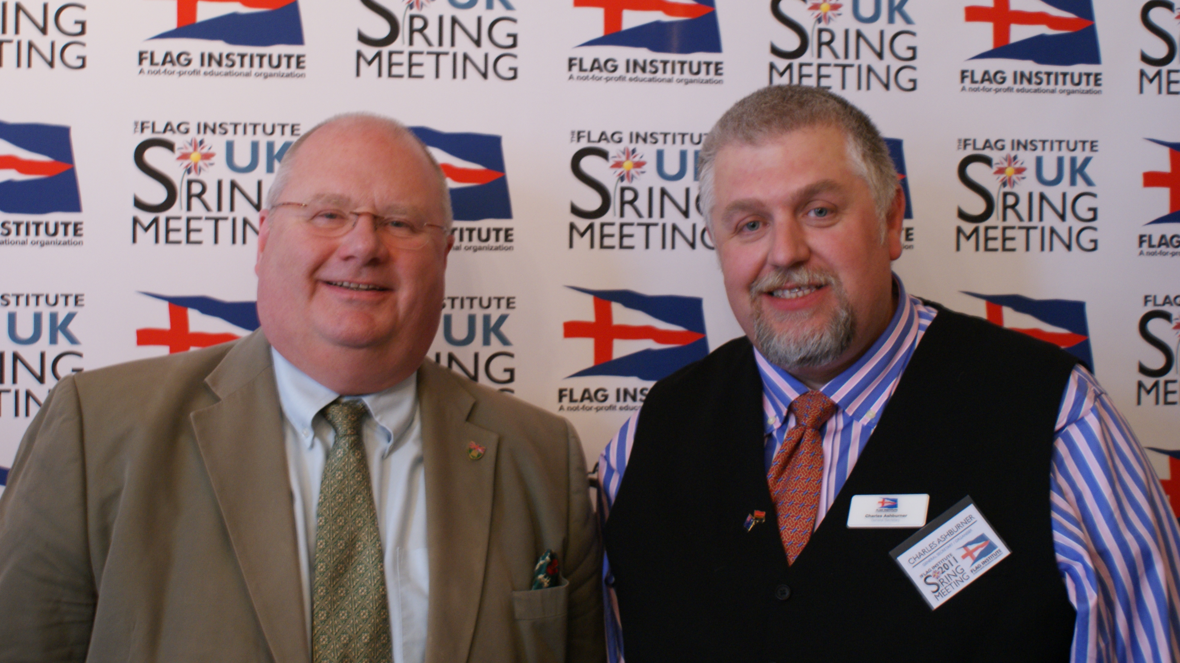 Eric Pickles; Secretary of State, with Charles Ashburner; Chief Executive and Trustee of the Flag Institute